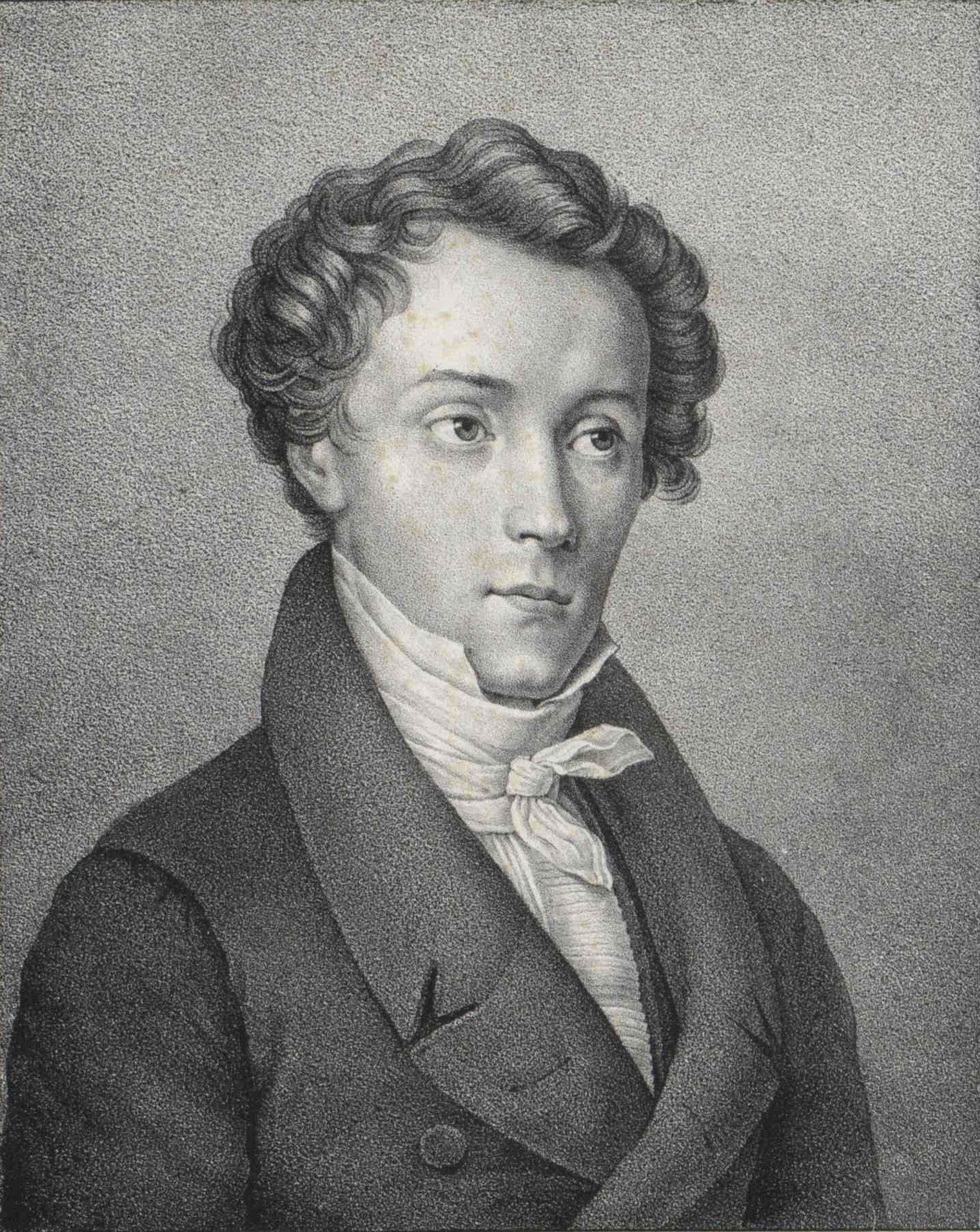 Depicted person: Friedrich Ernst Fesca